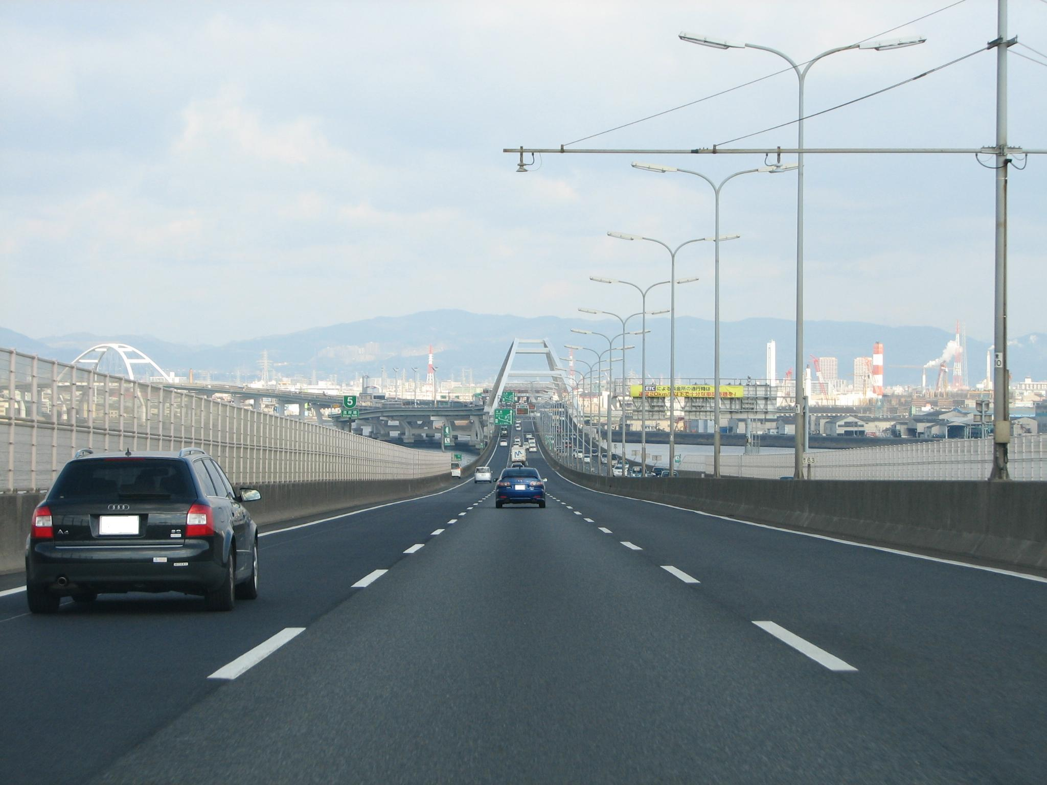 Hanshin Expressway Route 5 Wangan Route (Hokkō JCT - Nakajima IC)